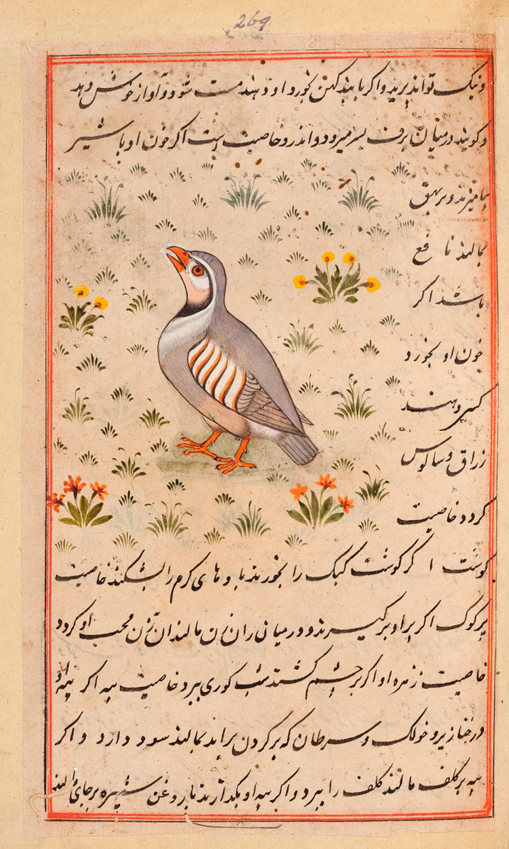 Chukar (Alectoris chukar)